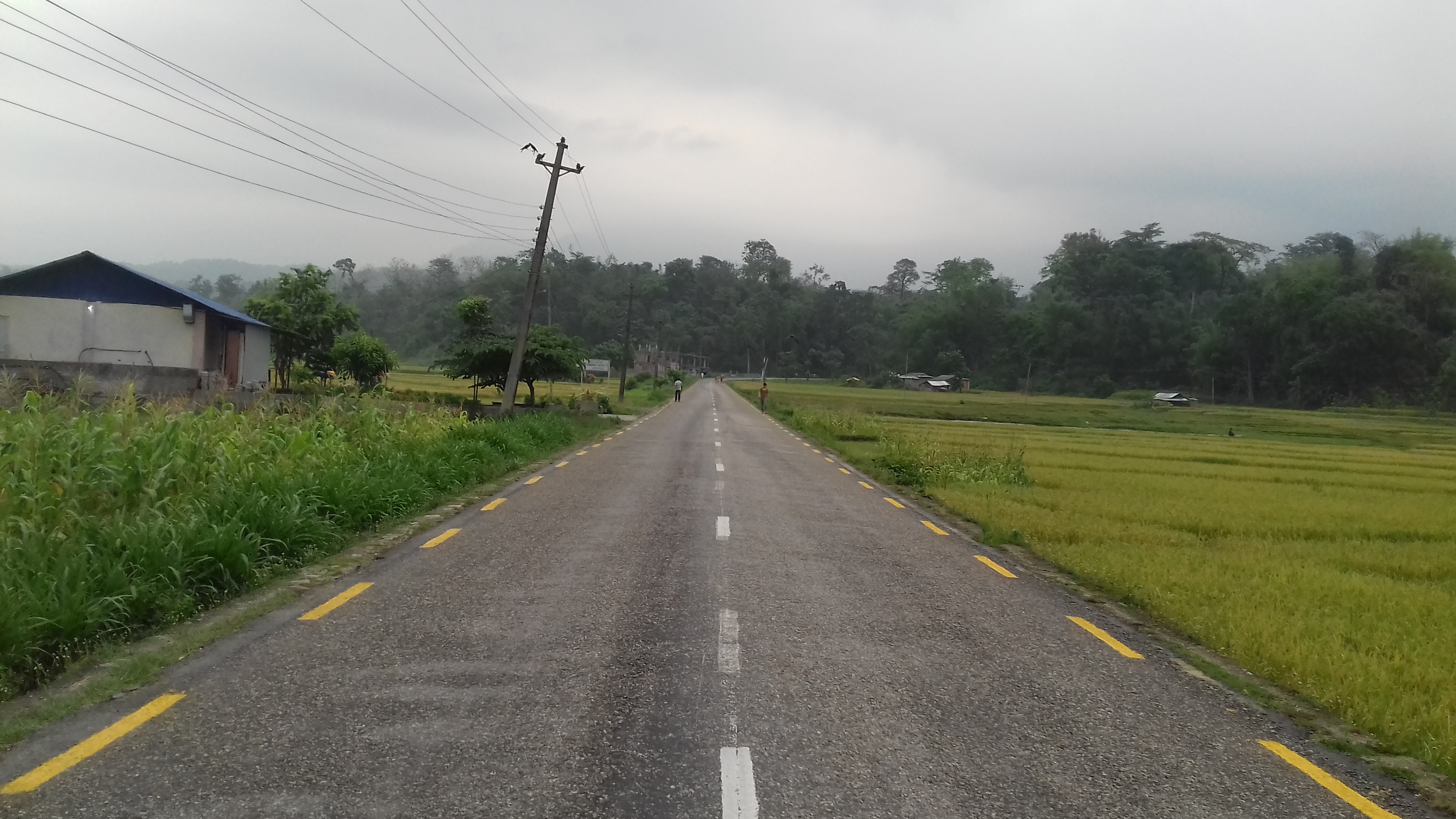 A view of Mechi Highway as it passes through the village of Budhabare. Mechi Highway, one of the important roadways of eastern Nepal, connects all the districts of the Mechi zone.